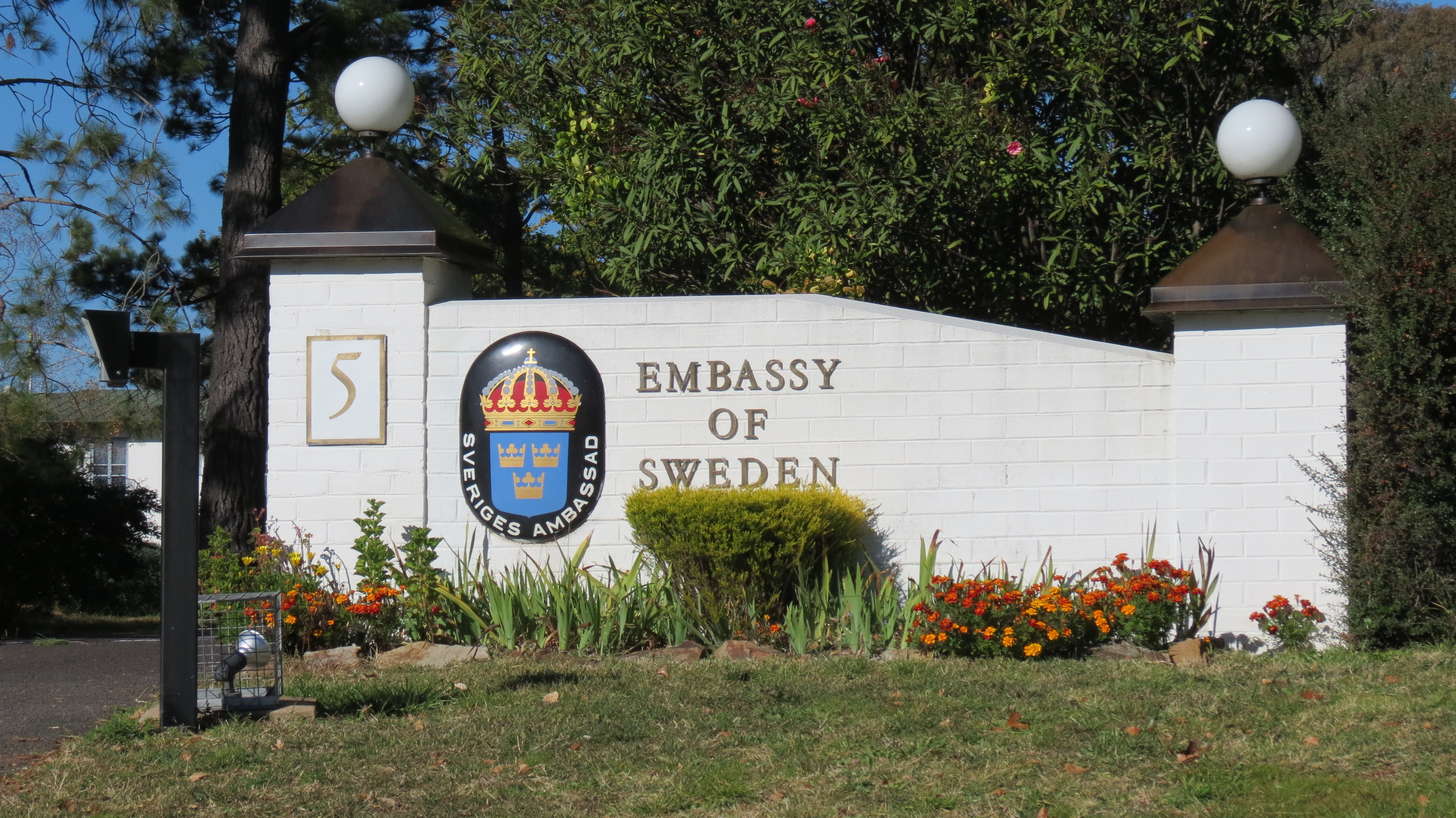 Swedish Embassy, Canberra.